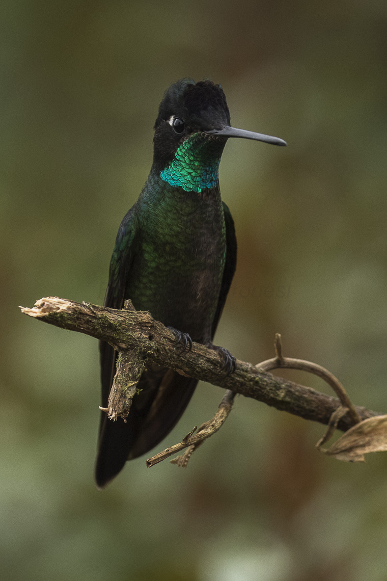 Magnificent Hummingird - Cloud Forest - Costa Rica_MG_6063